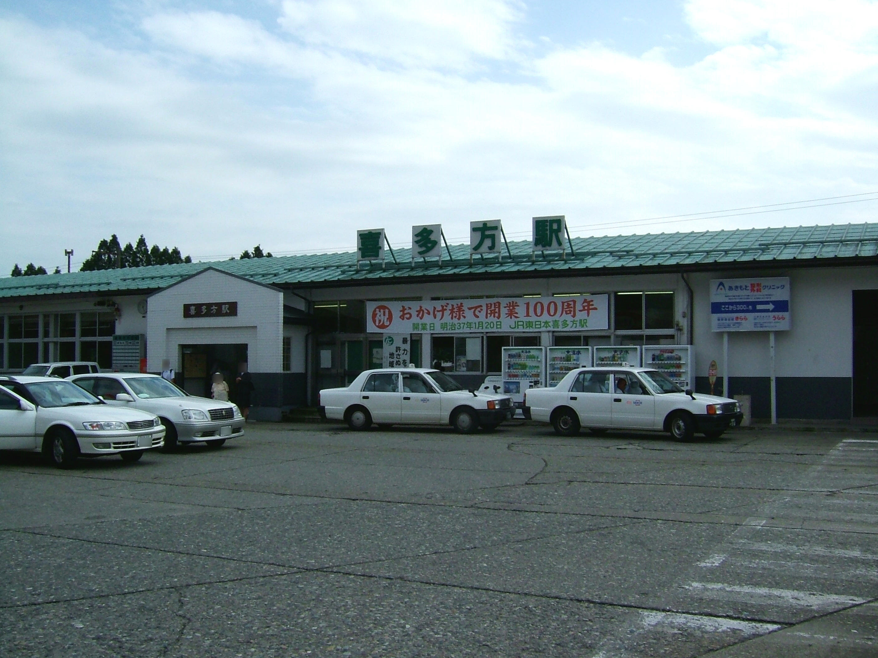 West Ban'etsu Line Kitakata Station